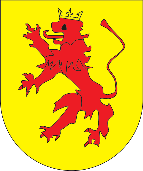 coats of arms of the wildgraviat of Dhaun